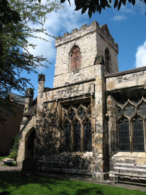 Holy Trinity, Goodramgate Hidden away behind shops and other city centre buildings, Holy Trinity is a fascinating church with work from the 11th to the 19th centuries. The large windows along the south side are of the 14th century.